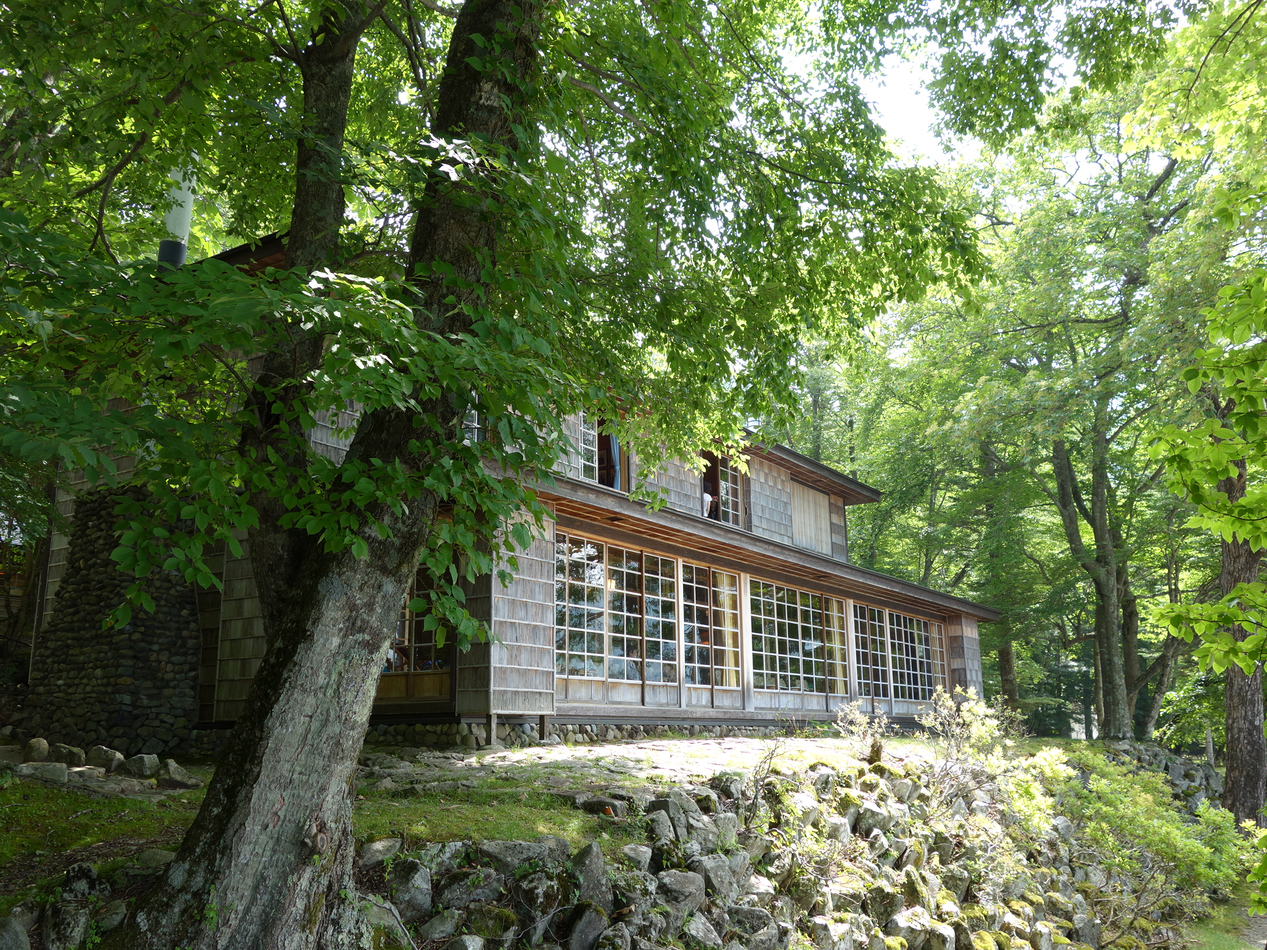 Japan: former italian embassy villa, near the lake Chūzenji in Nikkō (Tochigi prefecture).